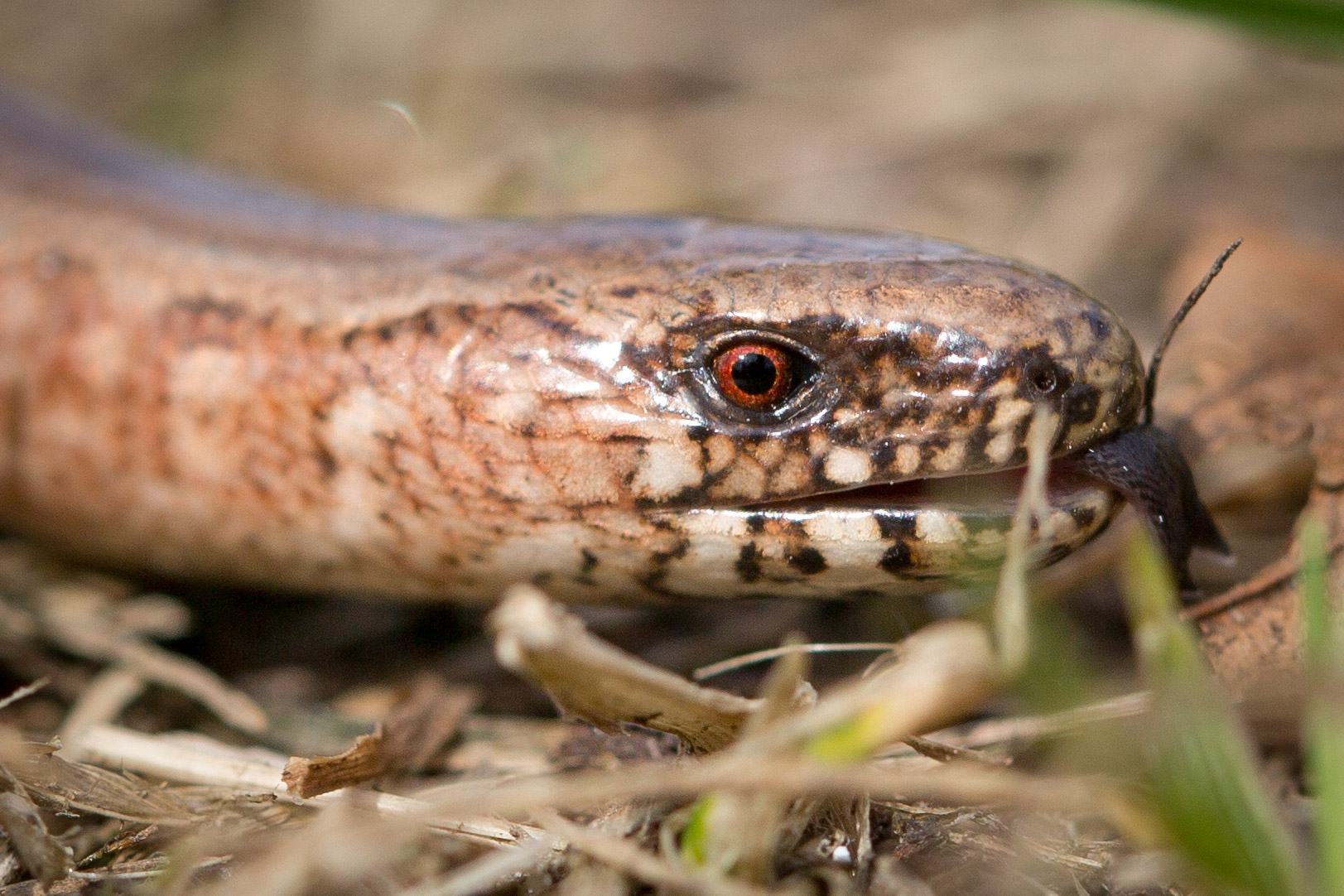 Anguis fragilis, slowworm, in the grass in Oslo, Norway